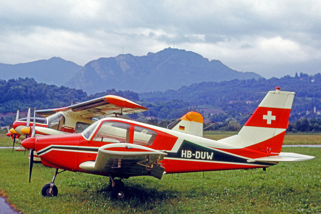 Early production Sud Gardan Horizon sold to Switzerland